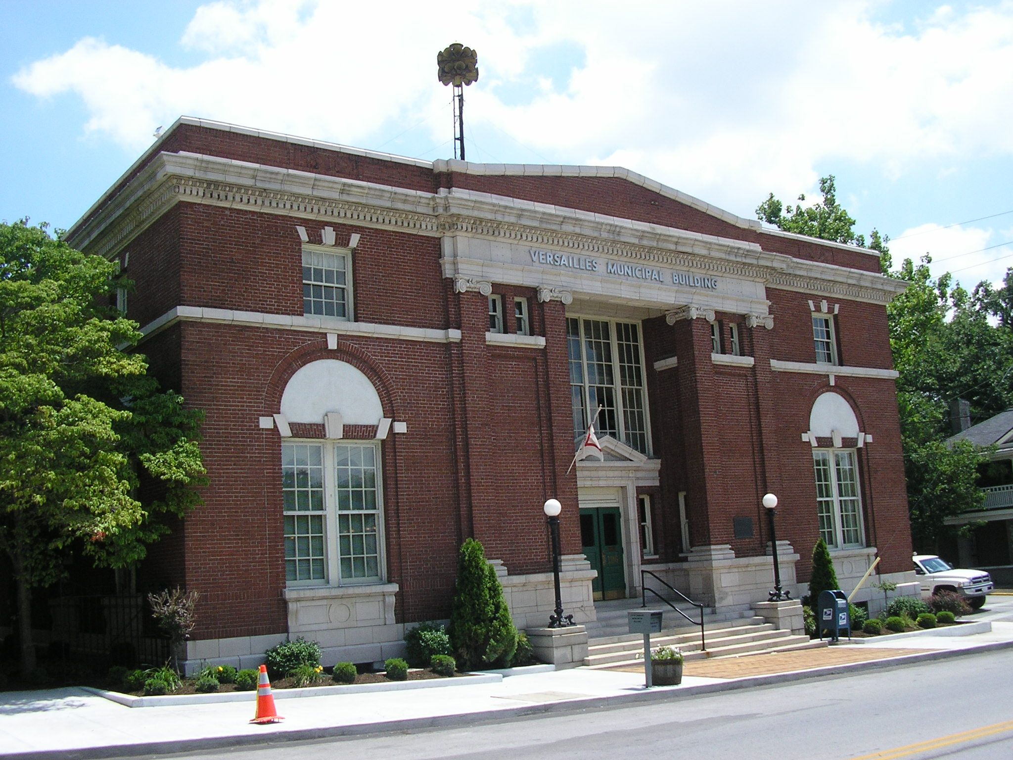 Front and northern side of City Hall in Versailles, Kentucky, United States, located at 196 S. Main Street (U.S. Route 62). It was built in 1920 as a post office and converted into a municipal building in 1968, and it is part of the Downtown Versailles Historic District, a historic district that is listed on the National Register of Historic Places.